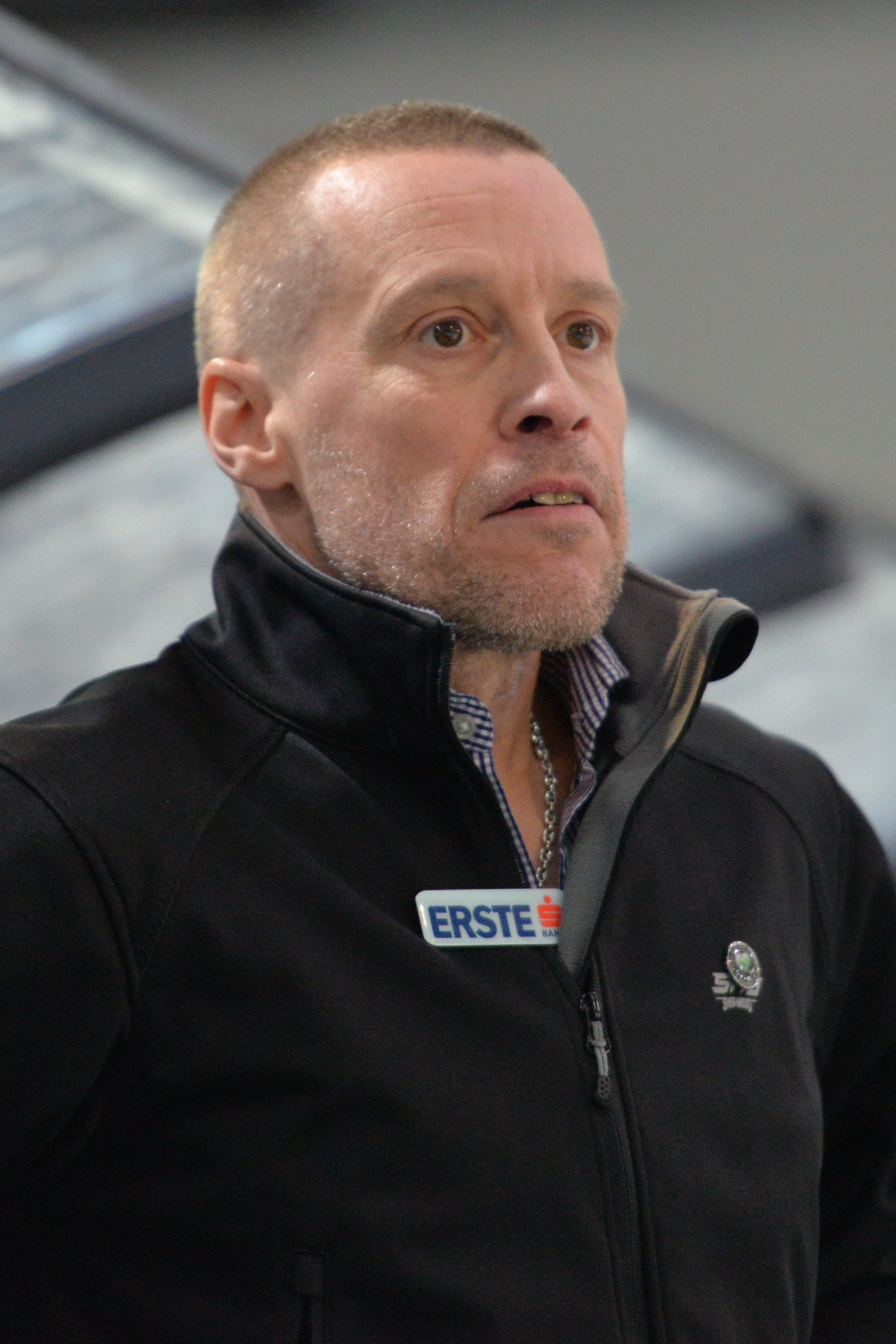 EBEL Red Bull Salzburg vs Olimpija Ljubljana 2016-01-17